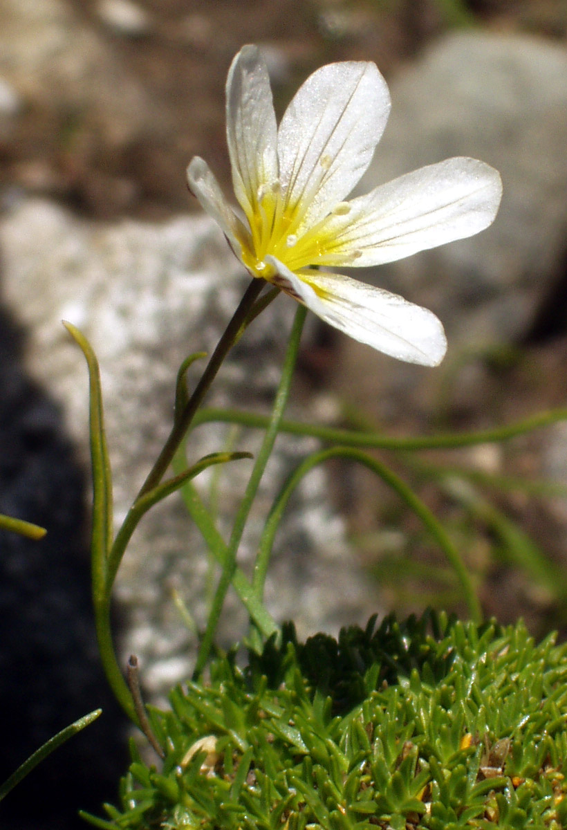 Lloydia serotina, growing on Hochgolling, Salzburger Land, Austria